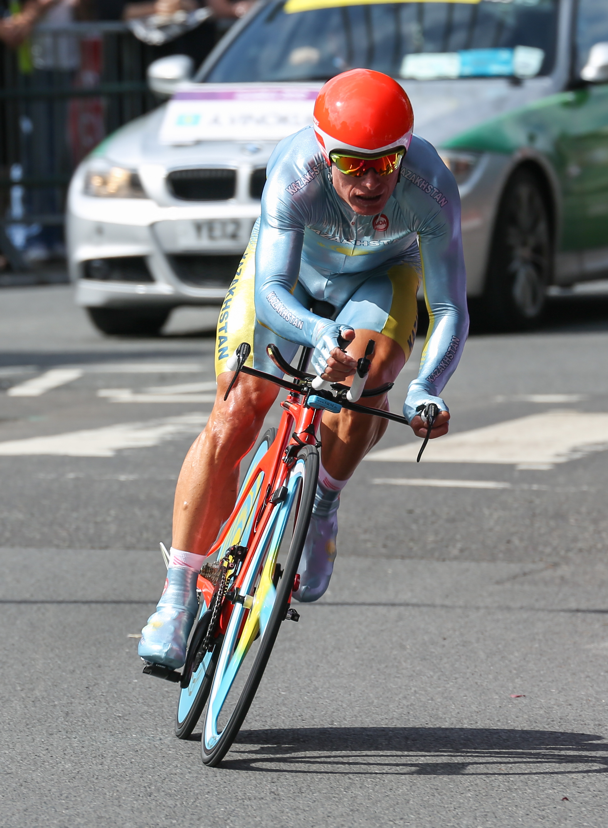 Alexander Vinokourov competing in the London 2012 Men's Olympic Time Trial.